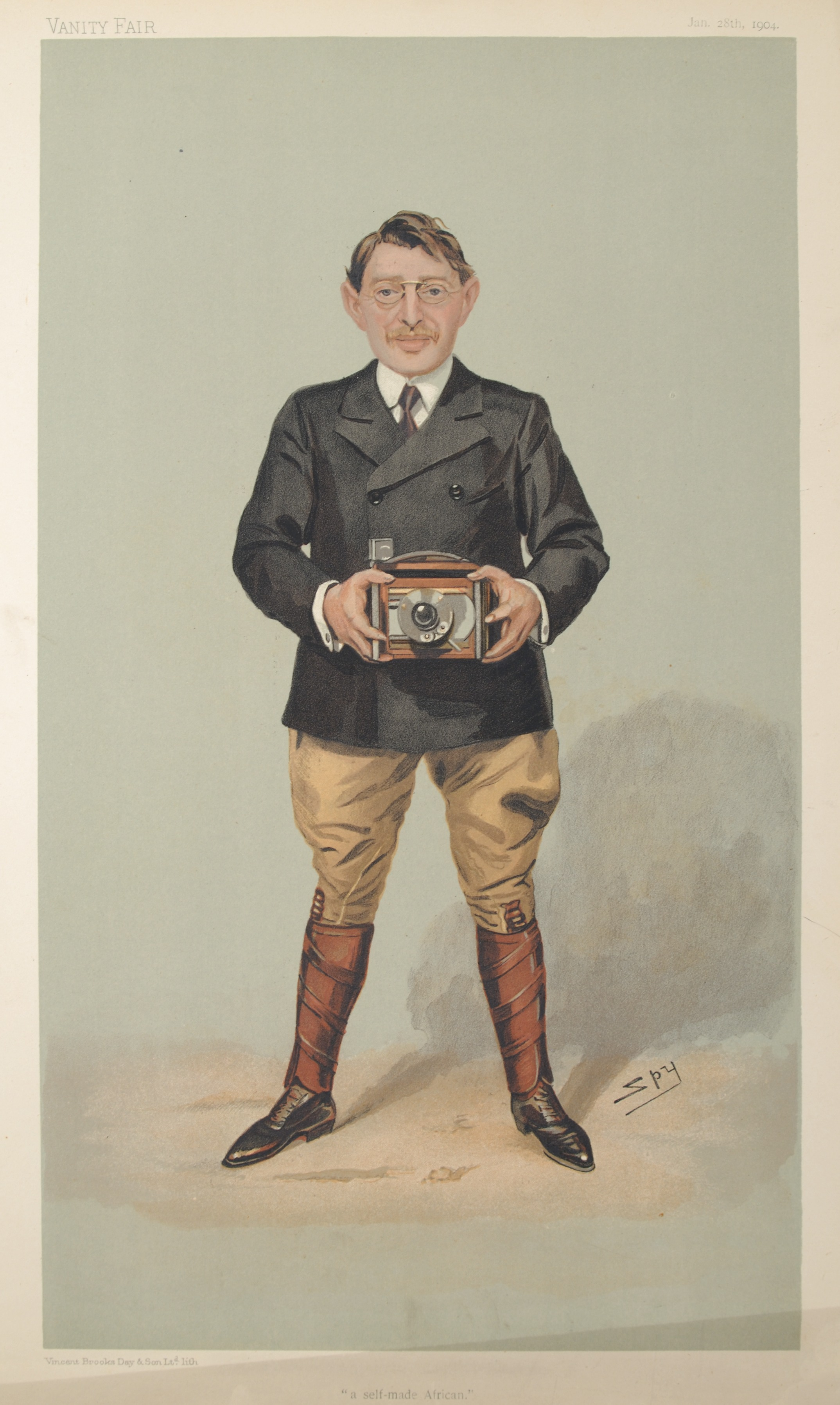 Caricature of Charles Sydney Goldman. Caption read "a self-made African".